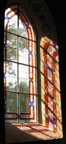 "Kirche Gröben" (big church), Brandenburg, Germany. Light travels through window.